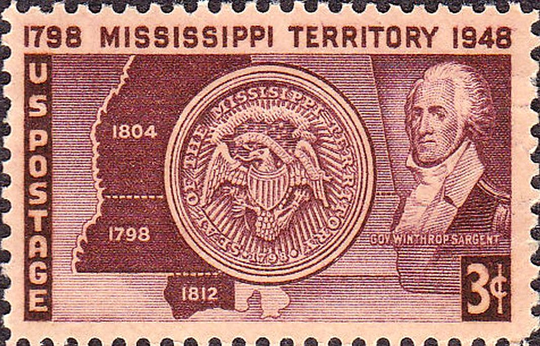 Mississippi_Territory_1948_Issue-3c.jpg